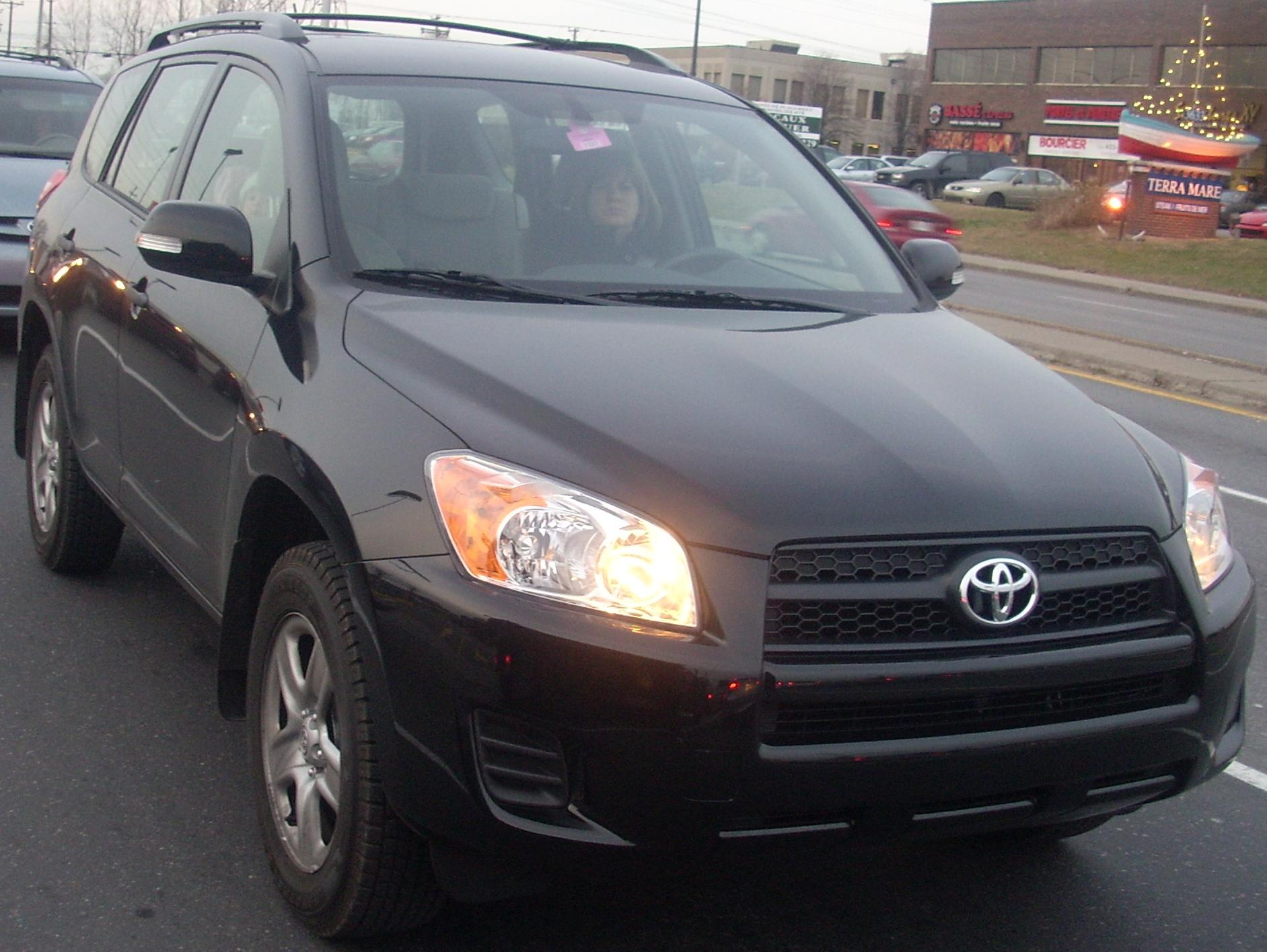 2009 Toyota RAV4 photographed in Montreal, Quebec, Canada.